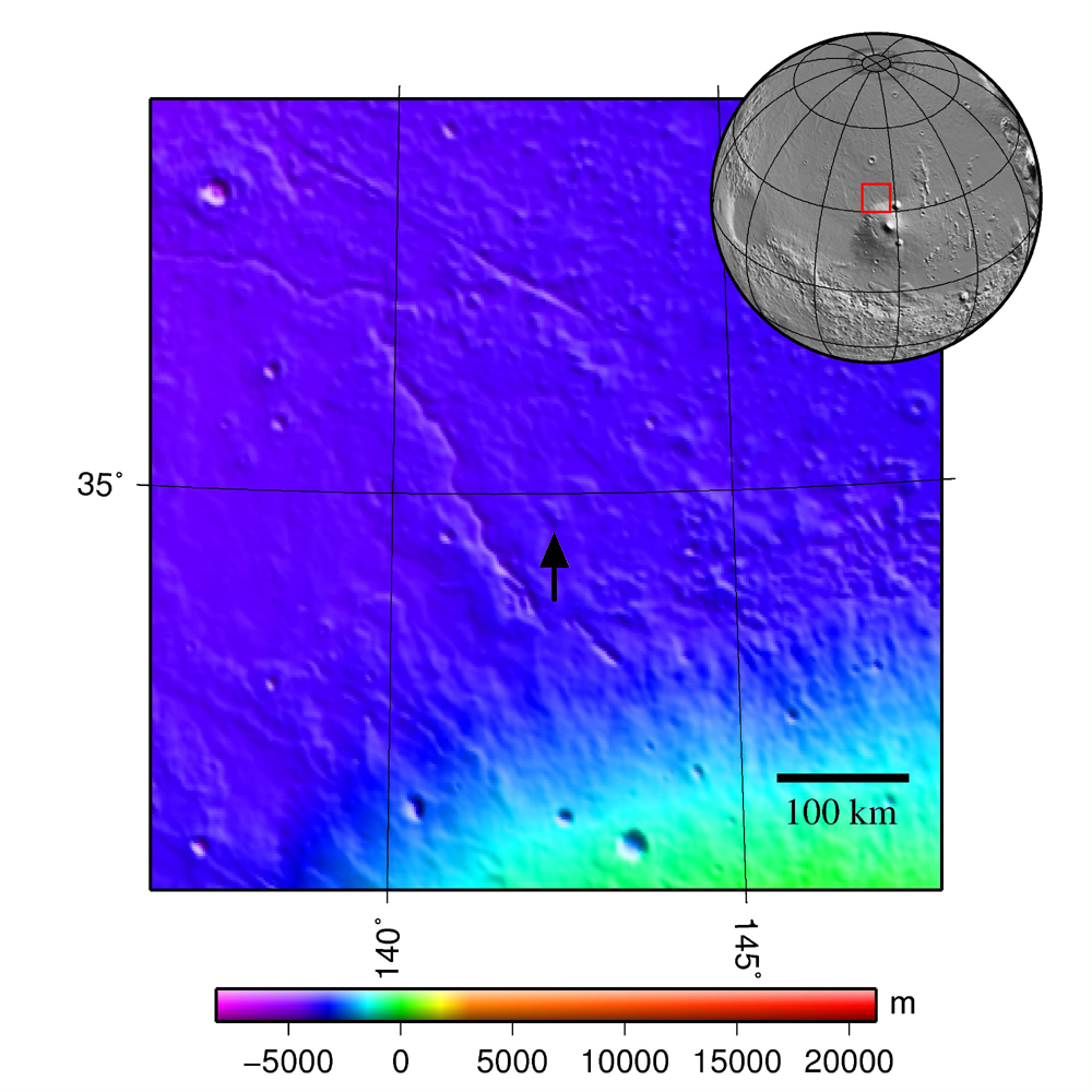 Galaxius Mons (Mars) topography